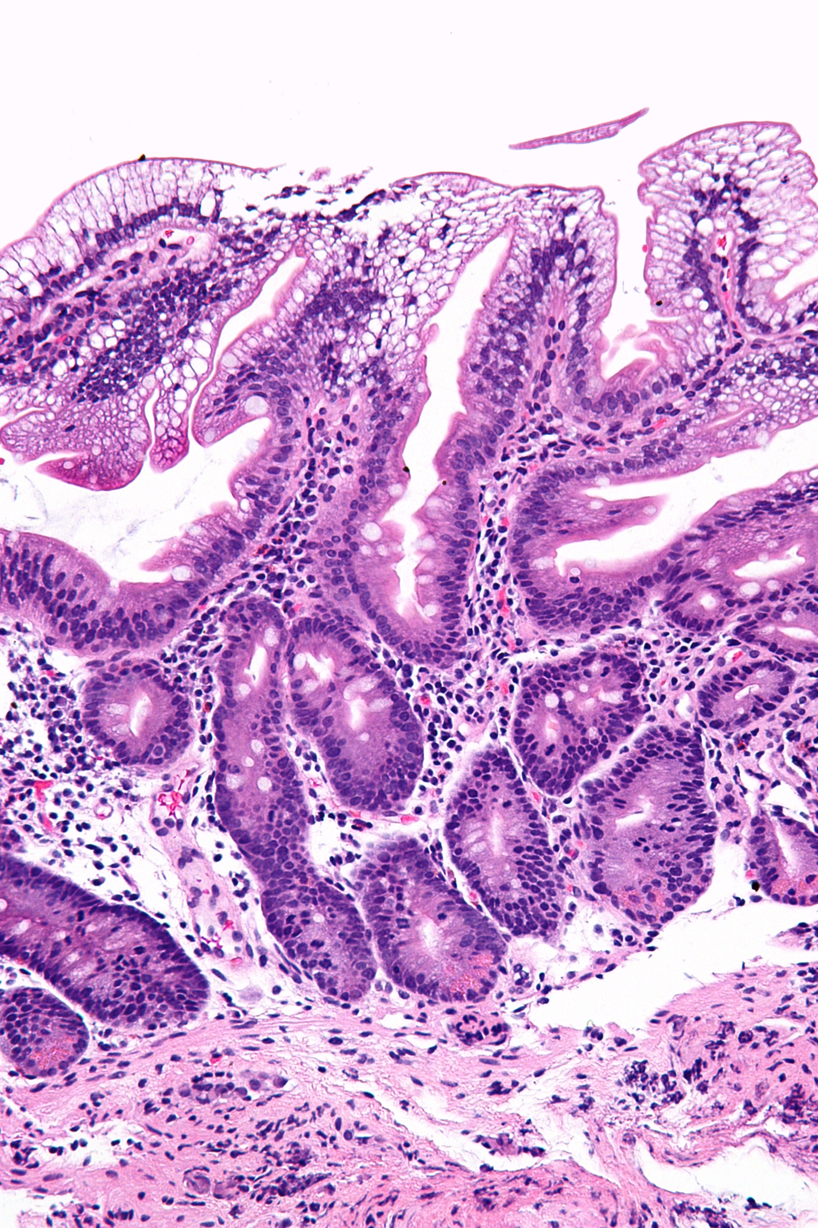 High magnification micrograph of abetalipoproteinemia. Duodenal biopsy. H&E stain. The small bowel mucosa shows the characteristic clear enterocytes (due to lipid accumulation). Brunner's glands are not seen on the images. Related images Intermed. mag. High mag. Very high mag.